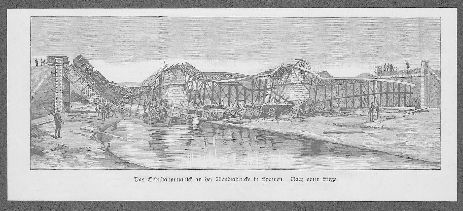 Eisenbahnunglück an der Alcudiabrücke / Eisenbahnunfall von Chillón